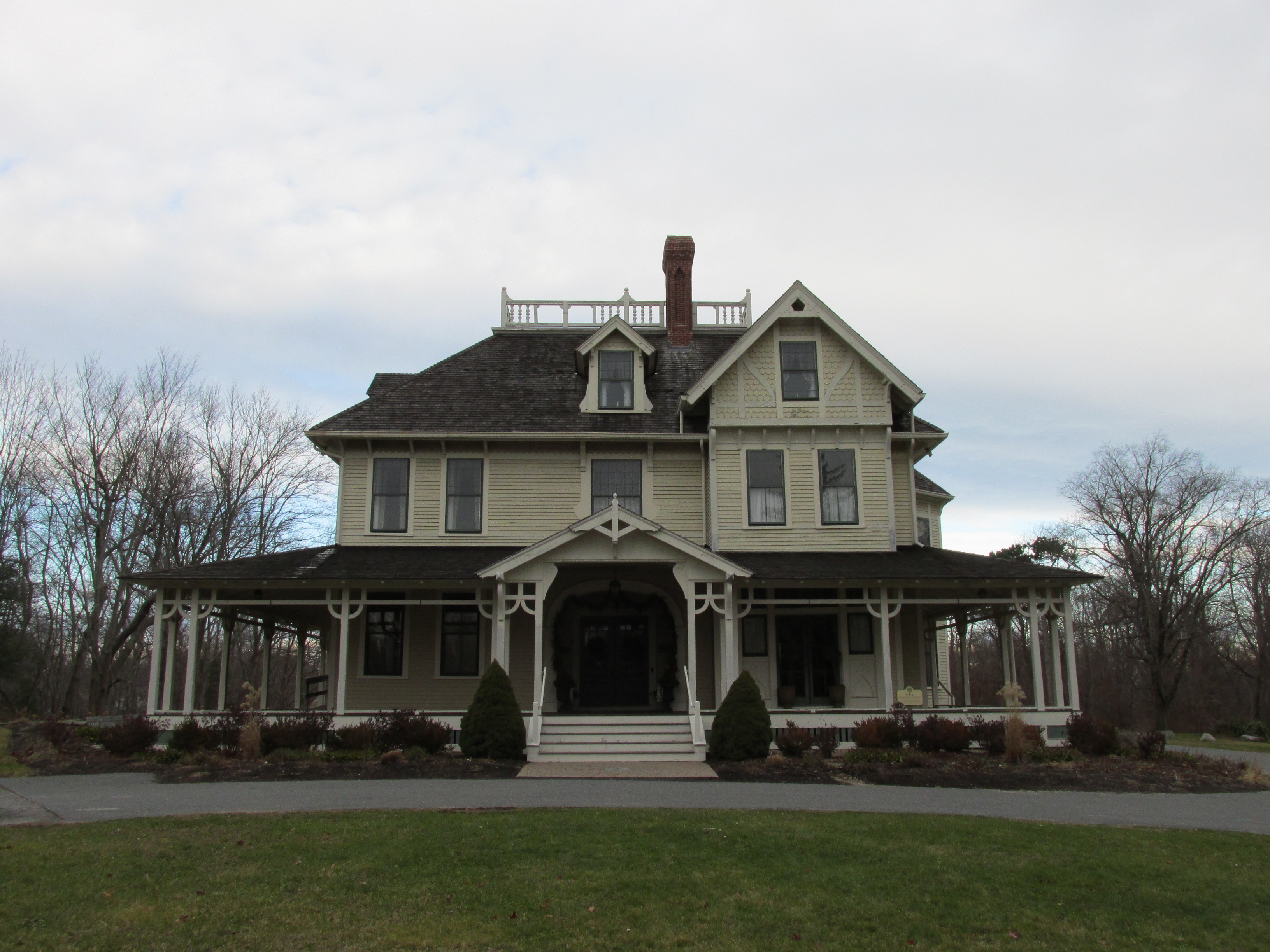 Thomas-Webster Estate, Marshfield Massachusetts - MACRIS Listing